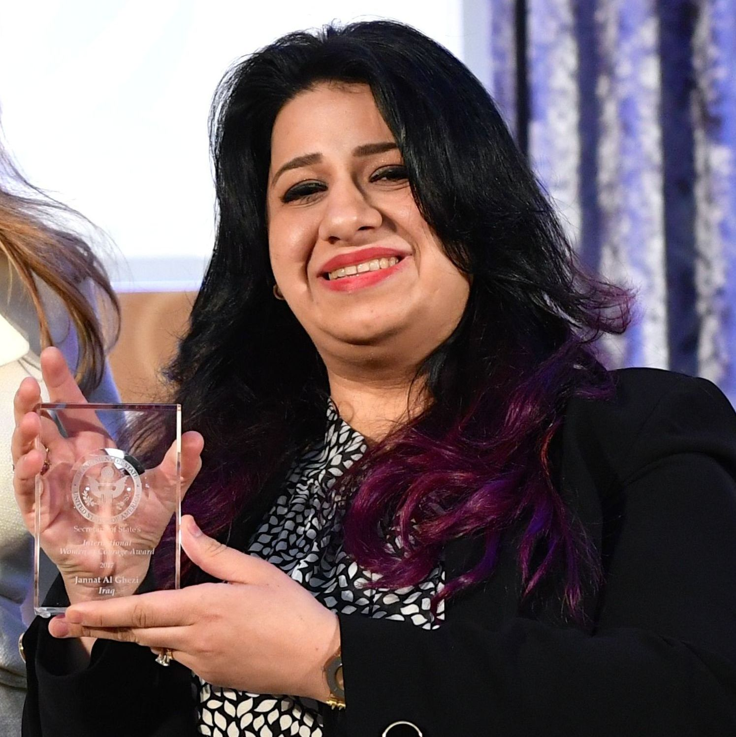 2017 International Women of Courage Awardee Jannat Al Ghezi of Iraq during a ceremony at the U.S. Department of State in Washington, D.C., on March 29, 2017. "Jannat Al Ghezi and the Organization of Women's Freedom in Iraq (OWFI) take daily risks to help women throughout Iraq escape violence and even death by offering them shelter, training, protection, and legal services. OWFI has helped over 500 victims of rape or domestic abuse. Jannat's role within the organization has been to coordinate the network of shelters for battered women. These shelters have been particularly helpful to countless Yazidi and other women from the Mosul area who suffered horribly under the brutal ISIS occupation of the area. Without help, many of these women would have ended up on the streets, and subjected to human trafficking and threats of honor killing. OWFI provides these women the chance to have new lives by offering education and practical skills like sewing. Jannat understands how important this is because she was once a victim of domestic abuse and subjected to threats from her tribal family. OWFI helped her gain a new life by encouraging her to complete her studies and follow her passion to help other women in need. She currently manages media relations at OWFI and serves as the editor of the organization's newspaper, Equality. Through OWFI, Jannat has also assisted women stranded in life-threatening situations by divorce, abandonment, and abuse from their spouses, many of whom did not have access to their travel documents because they were retained by their spouses. Some of these women were U.S. citizens living in Iraq. Jannat made herself available to shelter these women 24/7 and she is willing to go wherever she is needed to help, no matter how dangerous. She is motivated by her wish that all women in Iraq who are victims of violence have their human rights protected." [1]